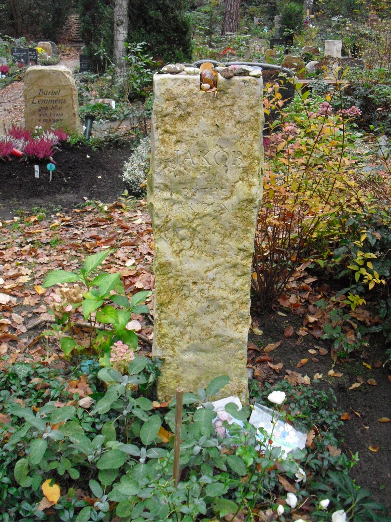 Grave of German writer Jakob Arjouni in Friedhof Heerstraße in Berlin-Westend